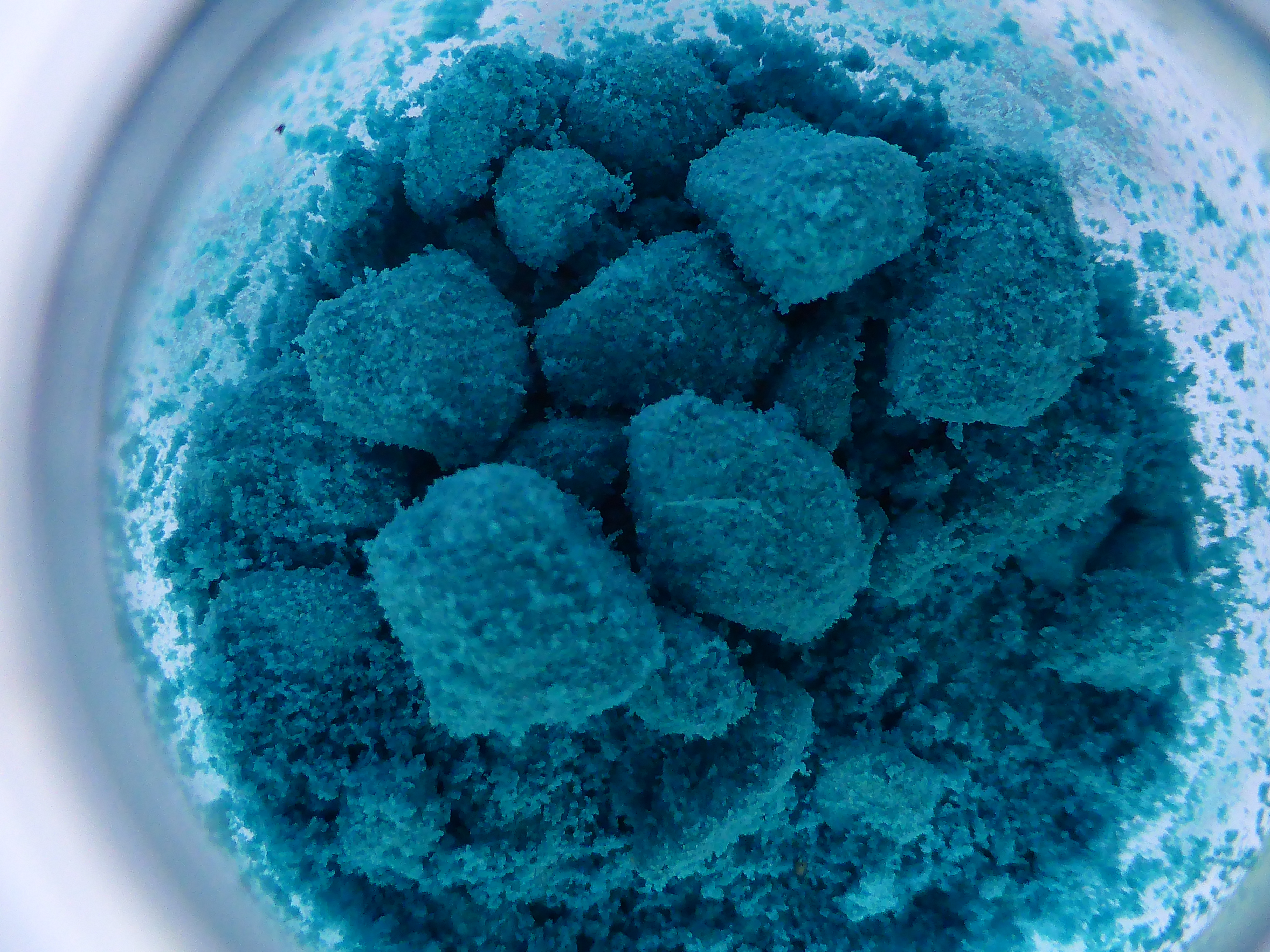 Vanadyl acetylacetonate